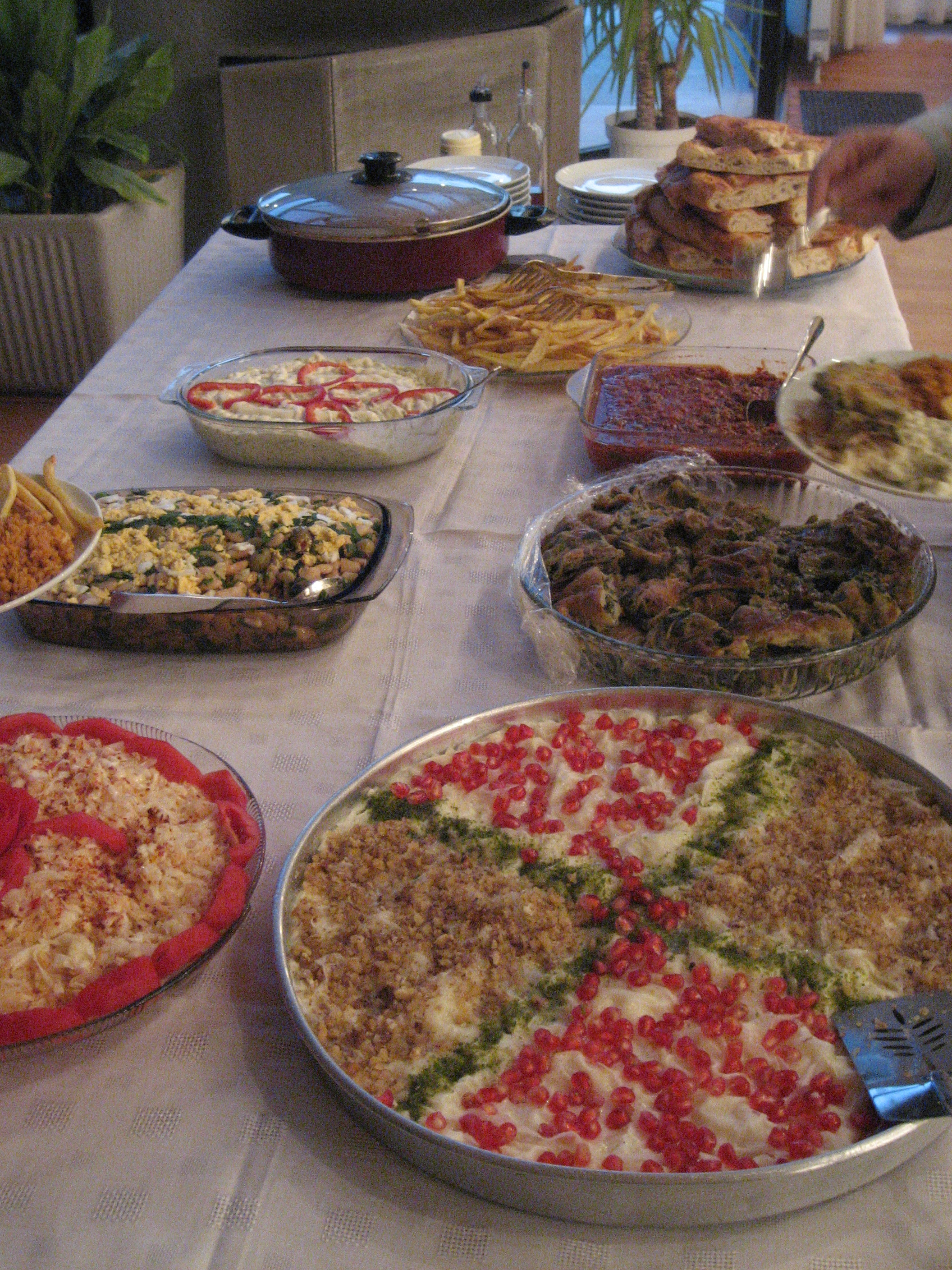 The spread of apetizers at the Iftar dinner put on by our bartender at school. Many of the specialities of the region here.